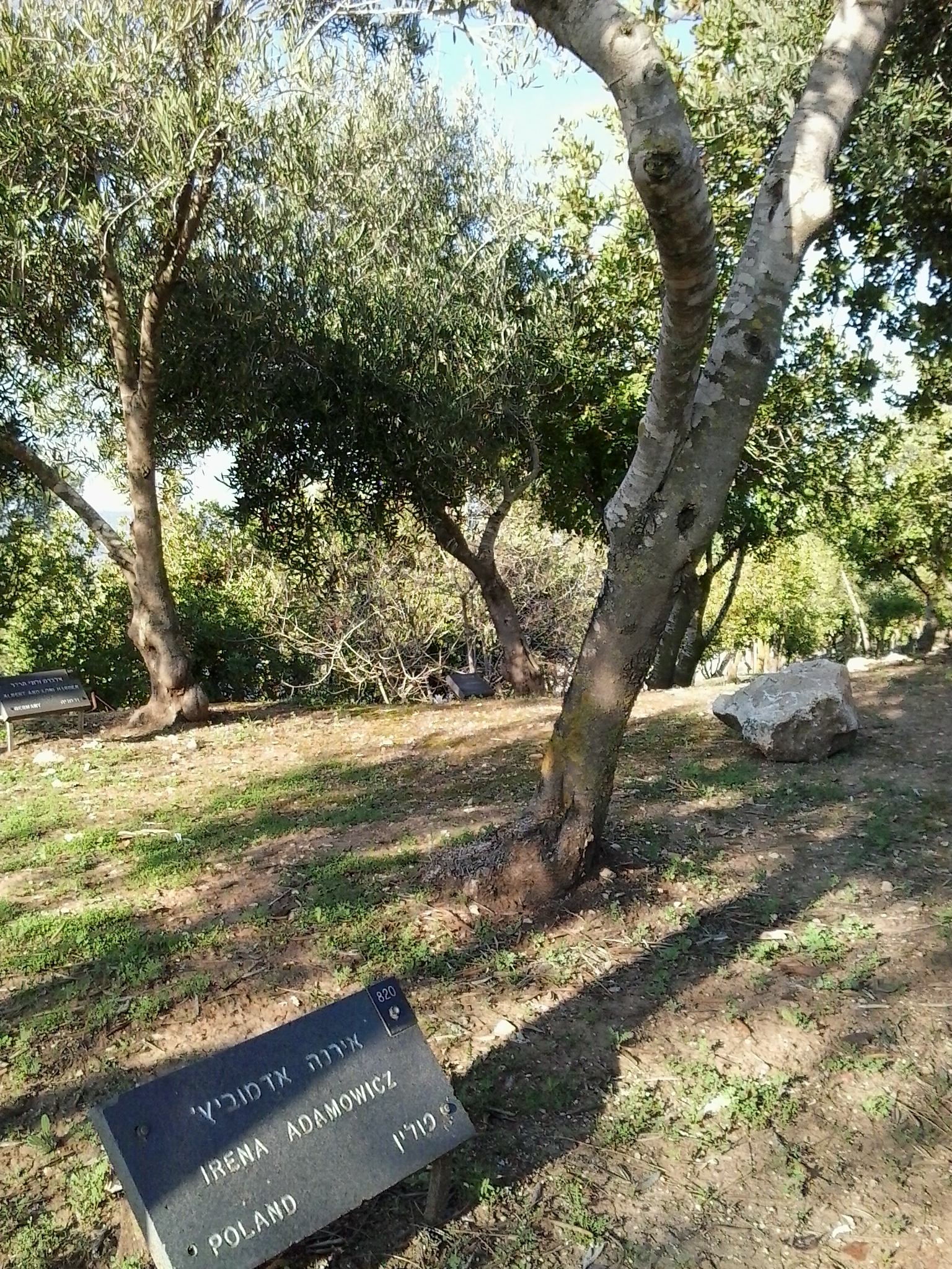 The tree planted at Yad Vashem honoring Righteous Among the Nations Irena Adamowicz